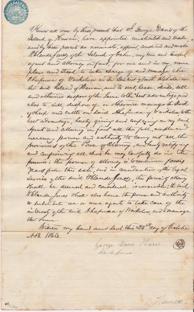 William Claude Jones Power of Attorney for client George Davis and his wife